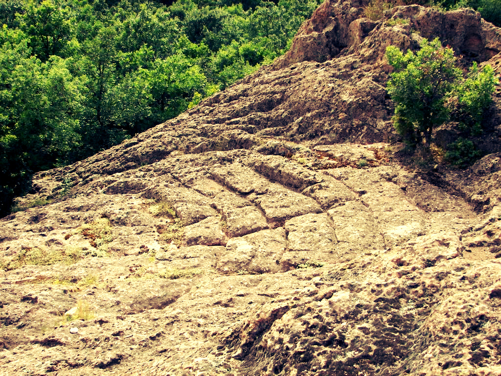 Harman kaya BG